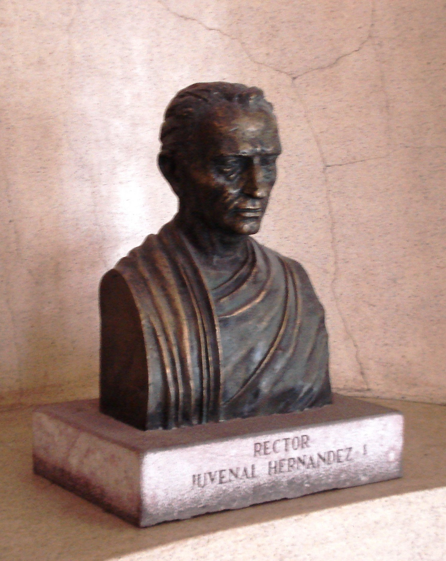 Rector Juvenal Hernández Jaque's sculpture